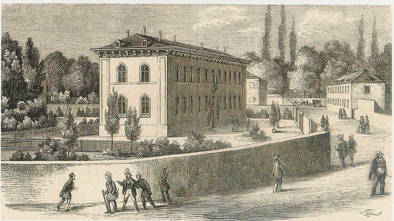 Bavarian Forestal School (later "University") of Aschaffenburg, Bayerische Forstlehranstalt (später "Forsthochschule") in Aschaffenburg